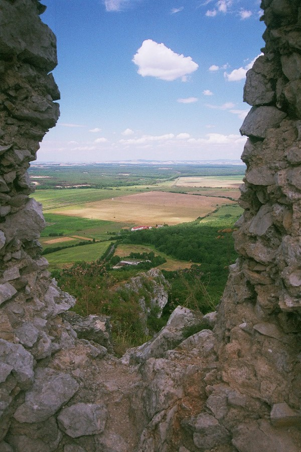 Bor lowland, view from Plavecký hrad, Malé Karpaty, Western Slovakia